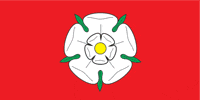 Flag of Alytus (Lithuania)